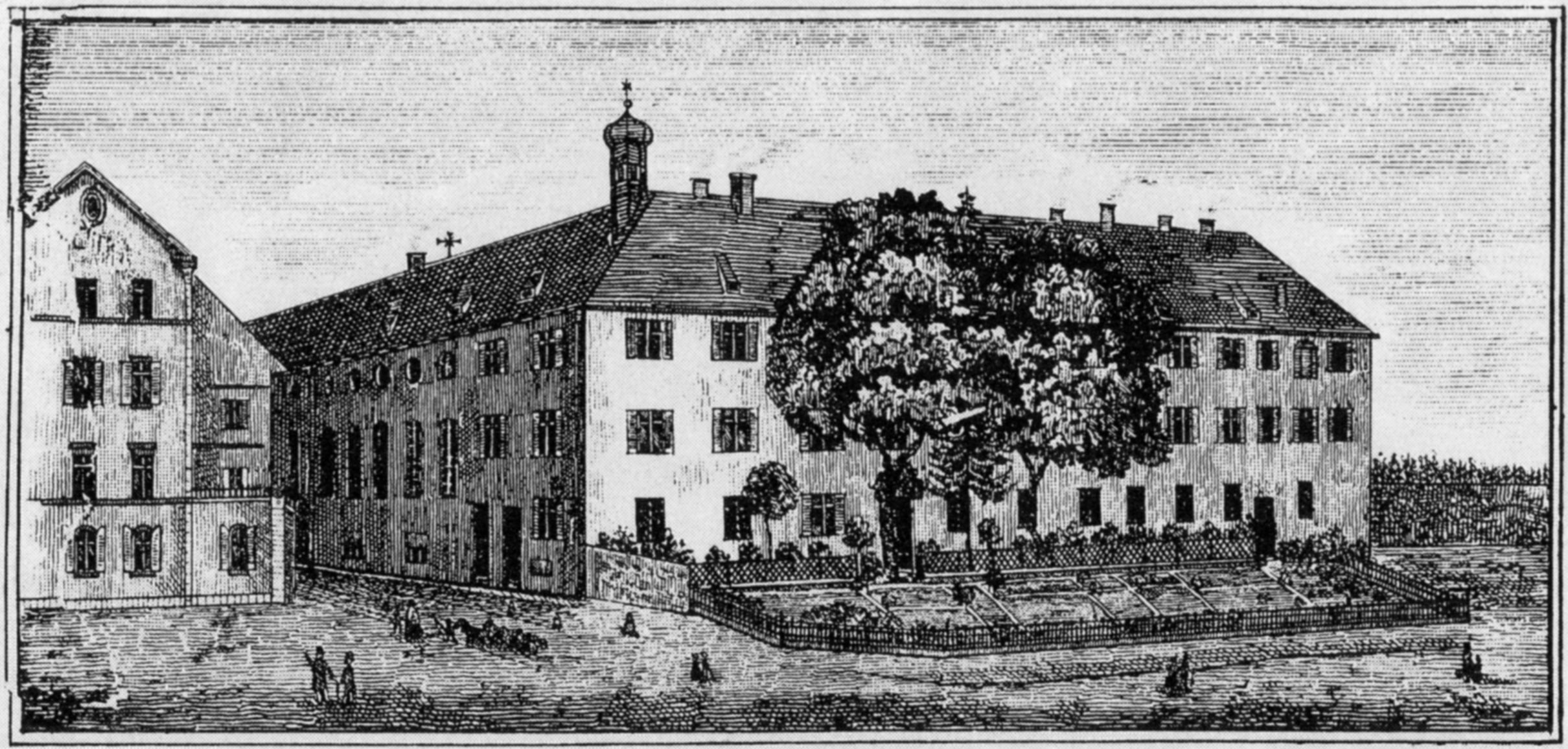 etching showing church of St. Ursula, Freiburg im Breisgau, as of 1850